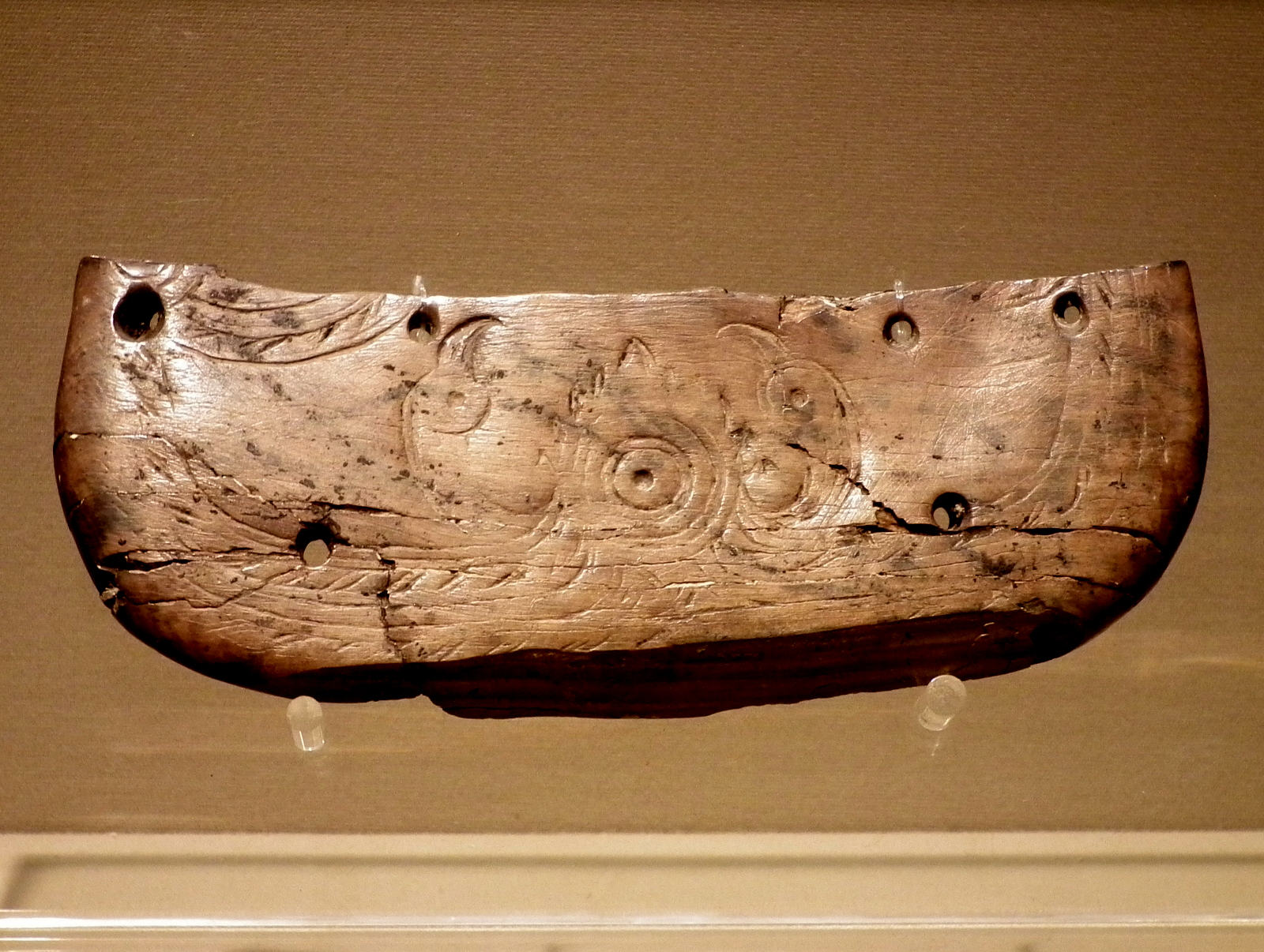 This archaeological artifact was unearthed at Hemudu, Yuyao, which demonstrates the sacred primitive belief of Hemudu people.